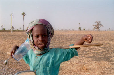 Senegal Herder.